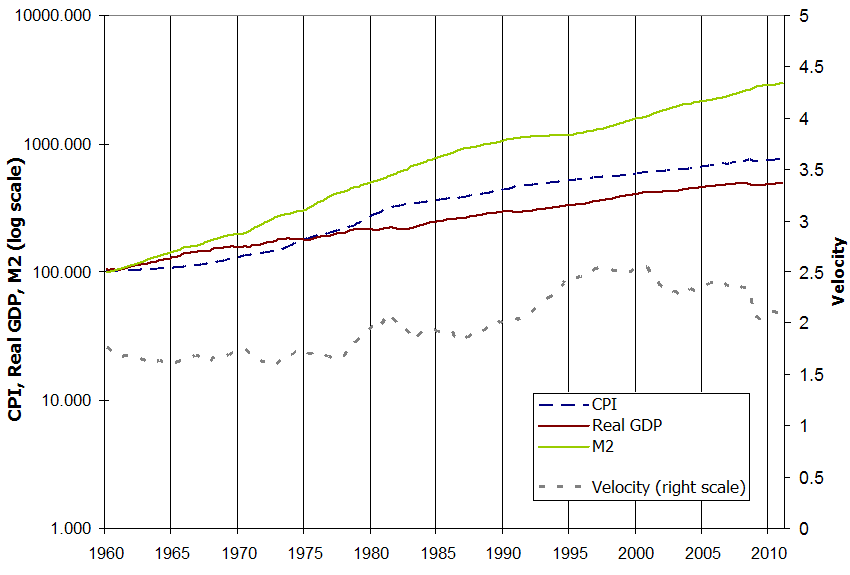 US CPI, Real GDP, M2 and Money Velocity, from Q1 1960 to Q1 2011. CPI, Real GDP, and M2 are indexed to 100 in Q1 1960. Money Velocity is shown on a different scale (on right). Data series obtained from the Federal Reserve Economic Data (FRED) database provided by Economic Research at the St. Louis Fed.[1]